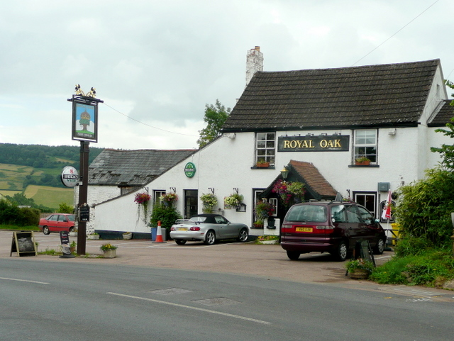 The Royal Oak, Hereford Road, Monmouth The pub in summer regalia - see 295360. The easting grid line passes through the building making the frontage in SO5014 and the back in SO5114.